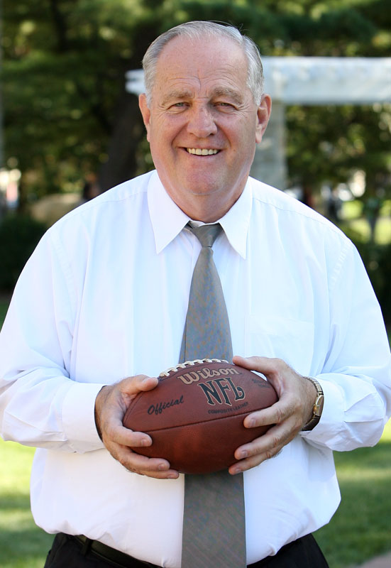 James A. McKinstry